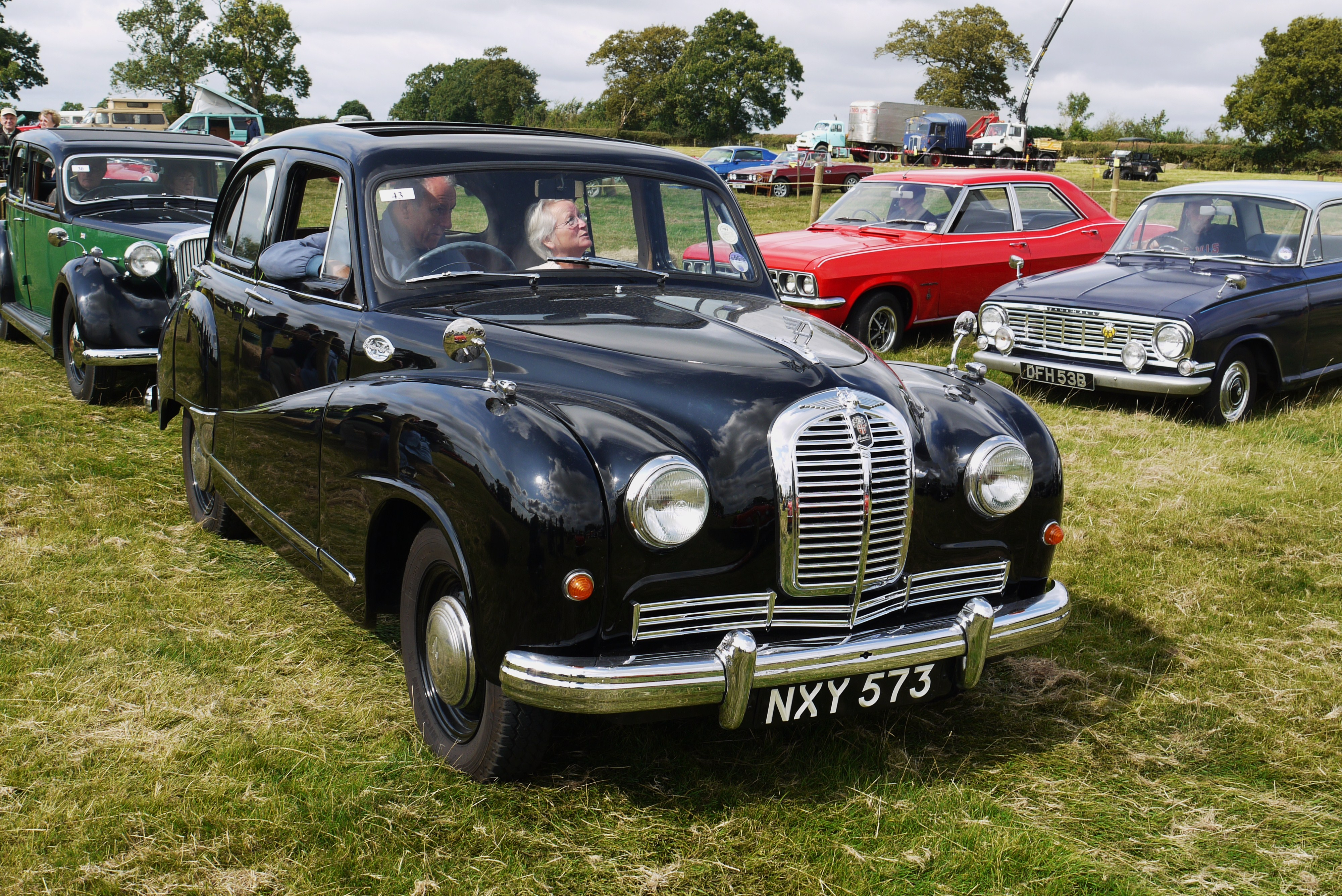 1953 Austin A70 Hereford